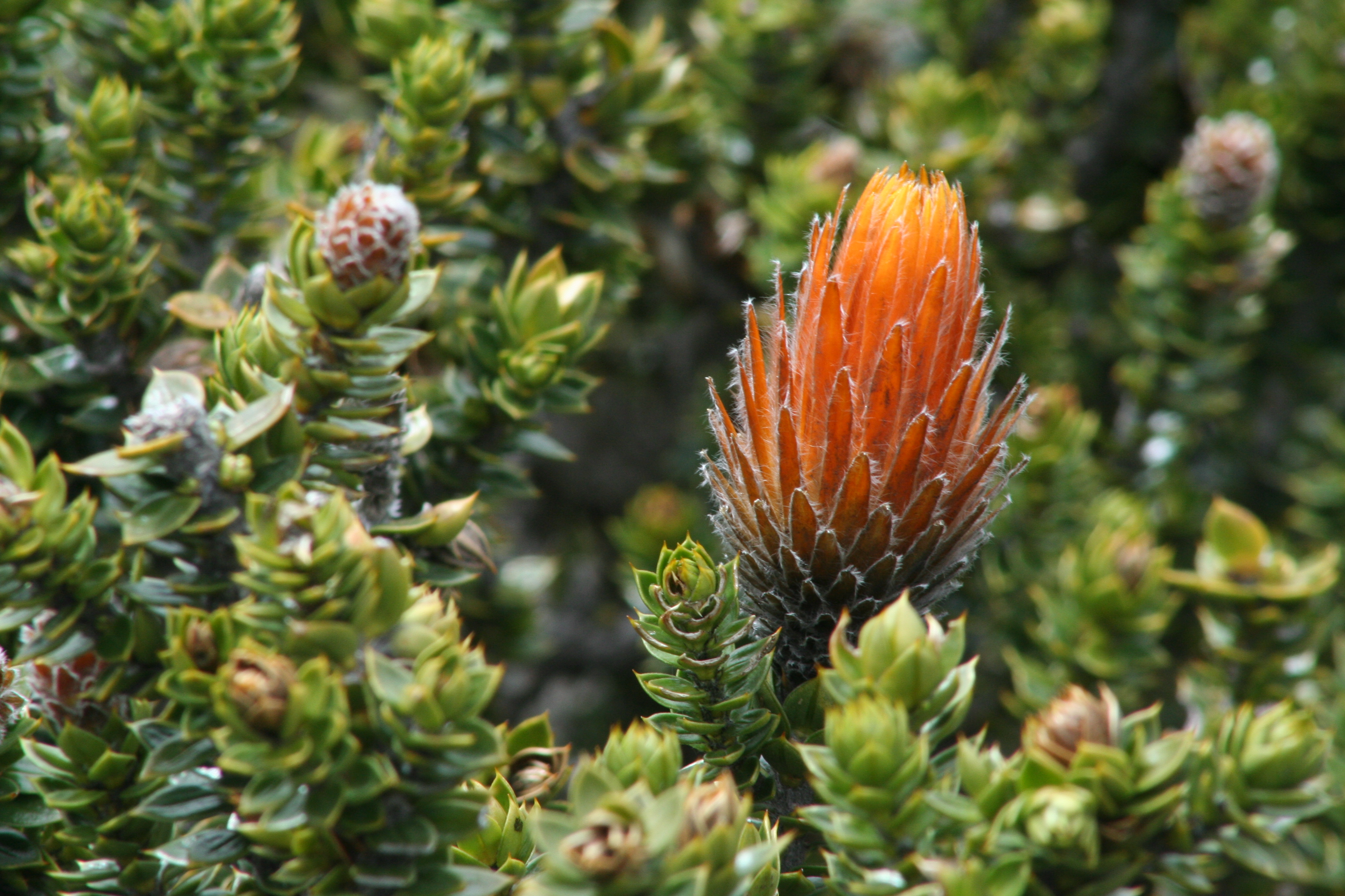 Detail of inflorescence and leaves in Chimborazo, Ecuador